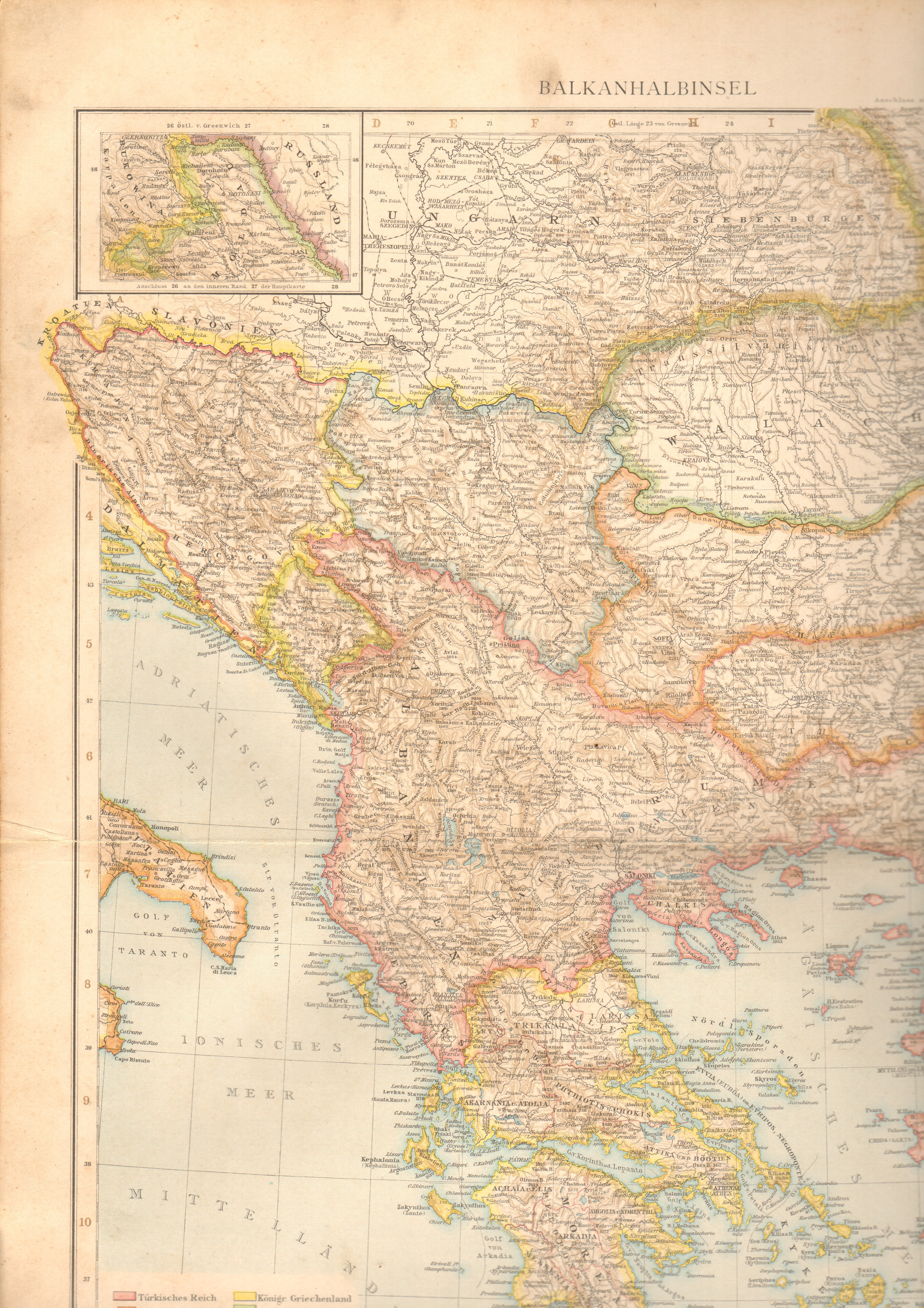 Original map of states in Balkan before year 1887 from Richard Andree